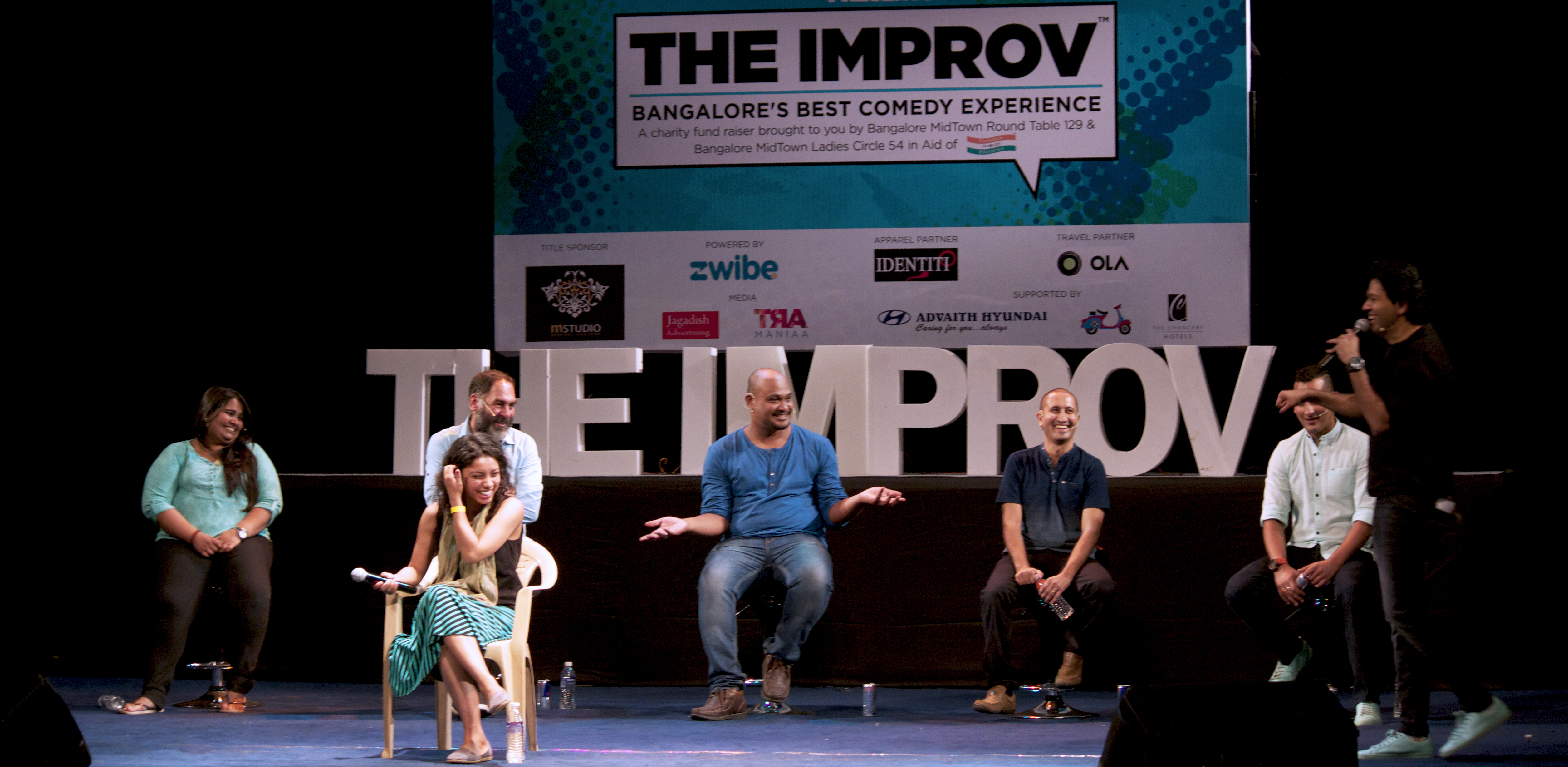 The Improve in